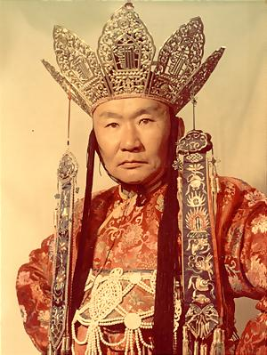 Dandaron